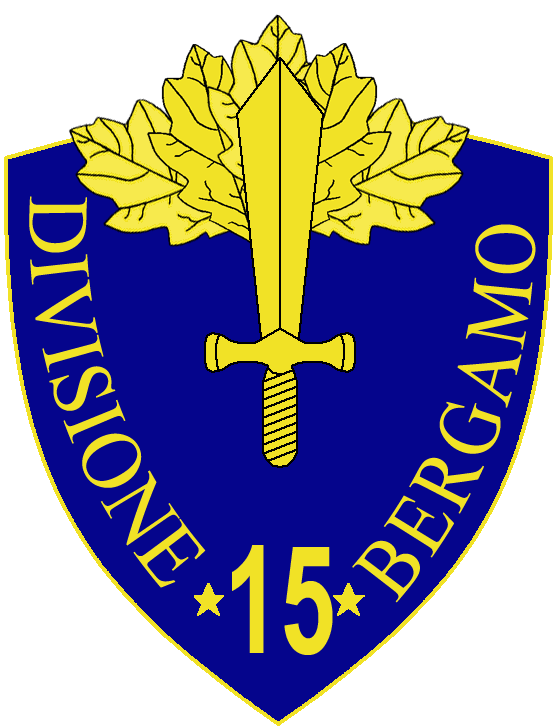 15a Divisione Fanteria Bergamo insignia, Regio Esercito, Italy, WWII